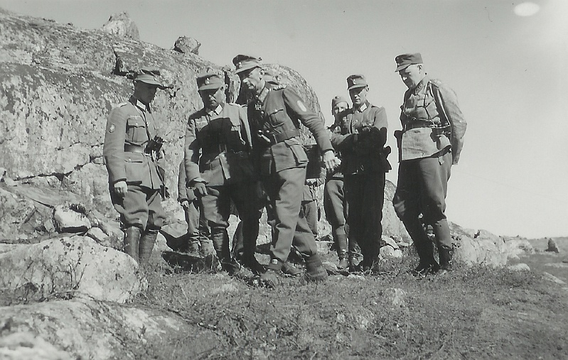 The commander of the 20th SS Mountain Division Dietl acquaints himself with the terrain in Lapland.